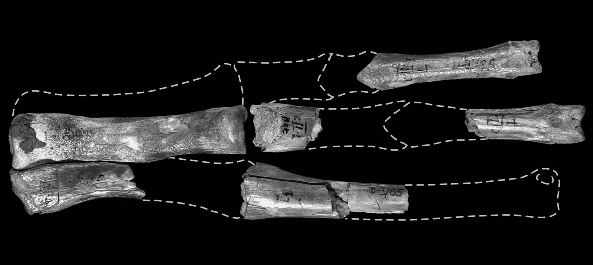 Left manual bones of the ornithomimid ZPAL MgD−I/65 from the Upper Cretaceous Nemegt Formation, Mongolia shown without unguals, in dorsal view. Dashed lines indicate missing bones. Abbreviations: Mtc, metacarpal; Ph, phalanx.